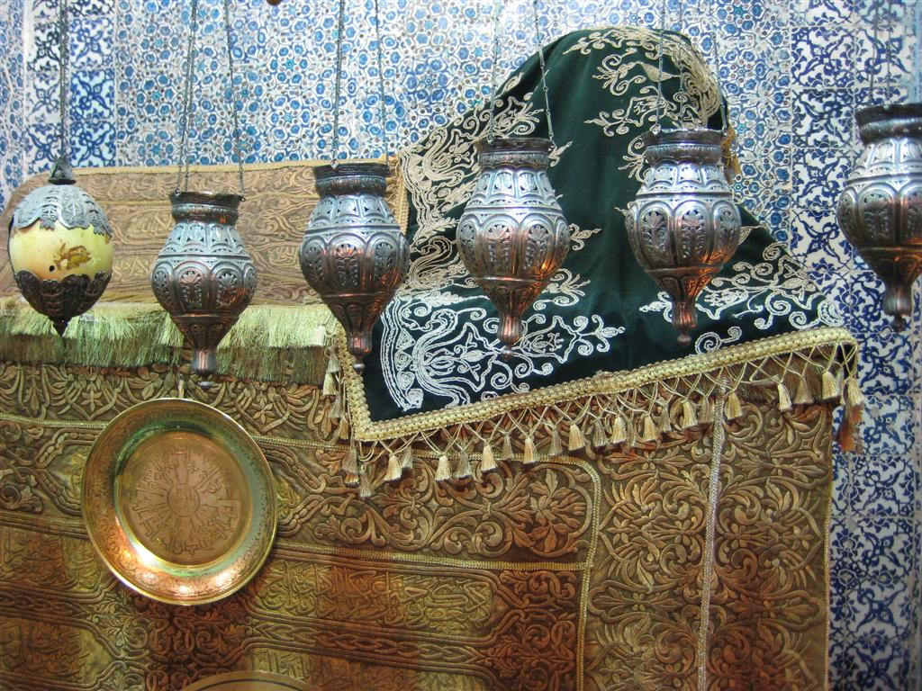 The tomb of Prophet Zakariyya (father of John the Baptist - Prophet Yahya) in Aleppo, Syria. (within the Great/Umayyad Mosque of Aleppo)